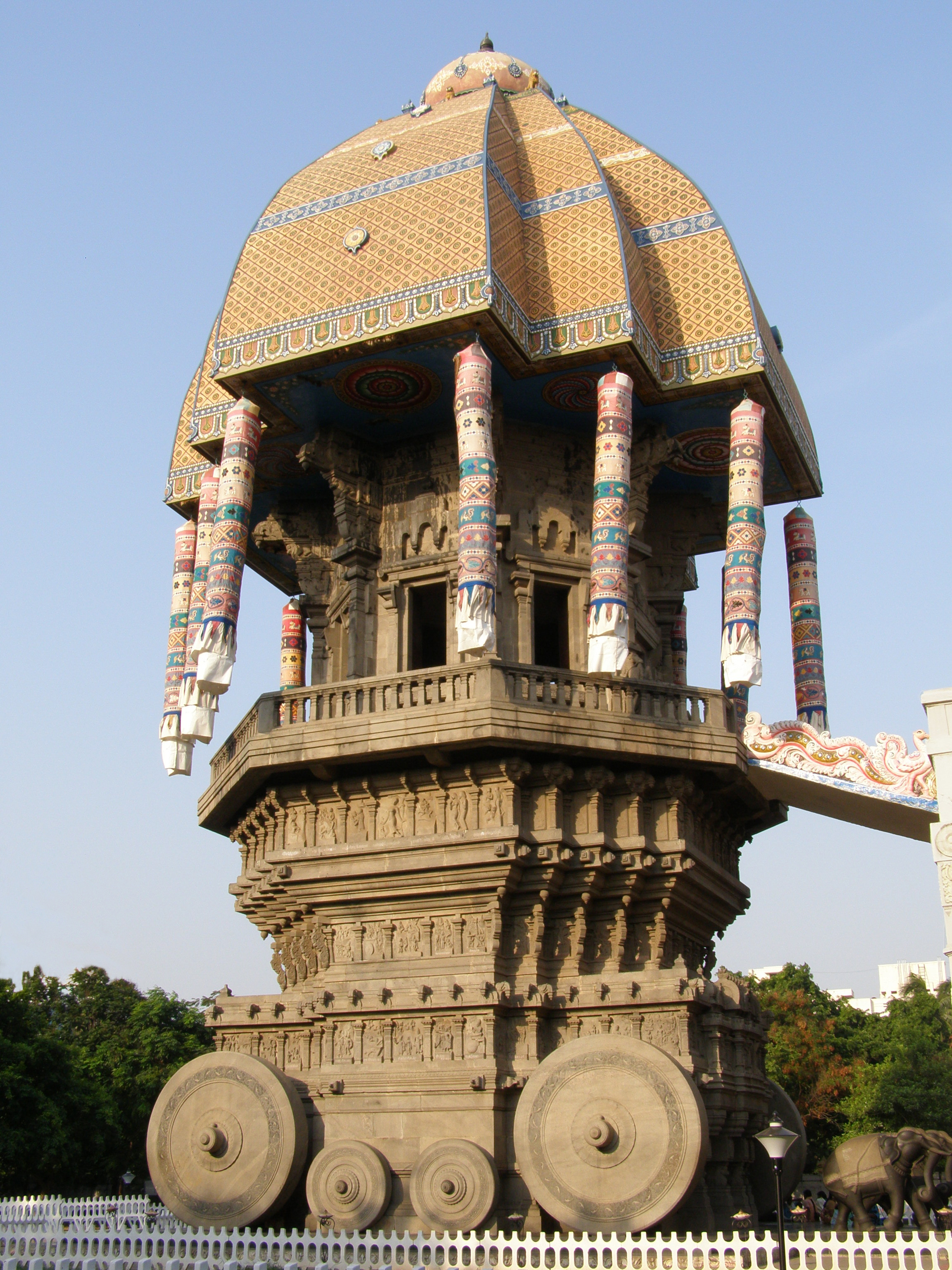 Valluvar Kottam at Chennai, India is a chariot shaped memorial dedicated to the Tamil poet Tiruvalluvar.